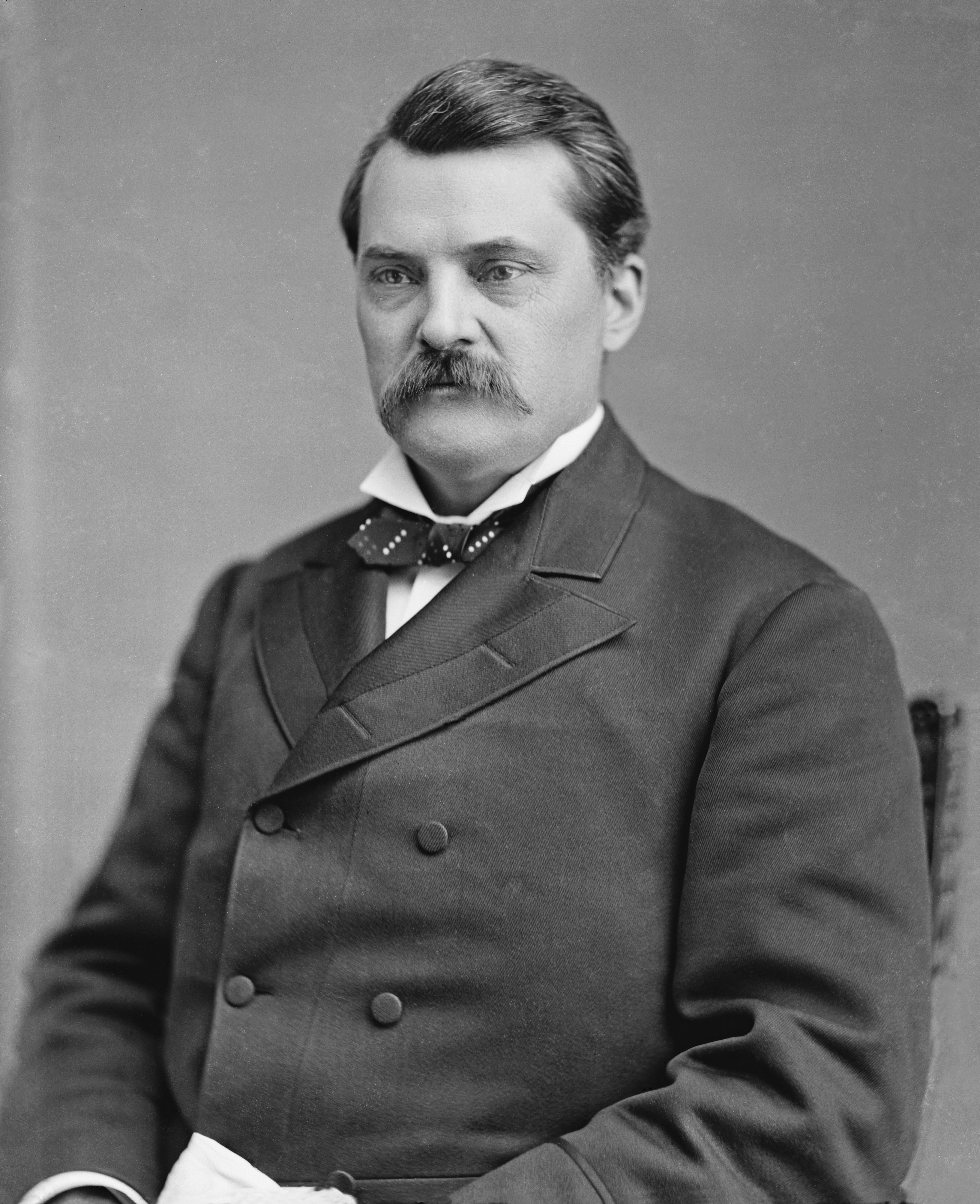 Anson G. McCook. Library of Congress description: "McCook, Hon. Anson of NY".